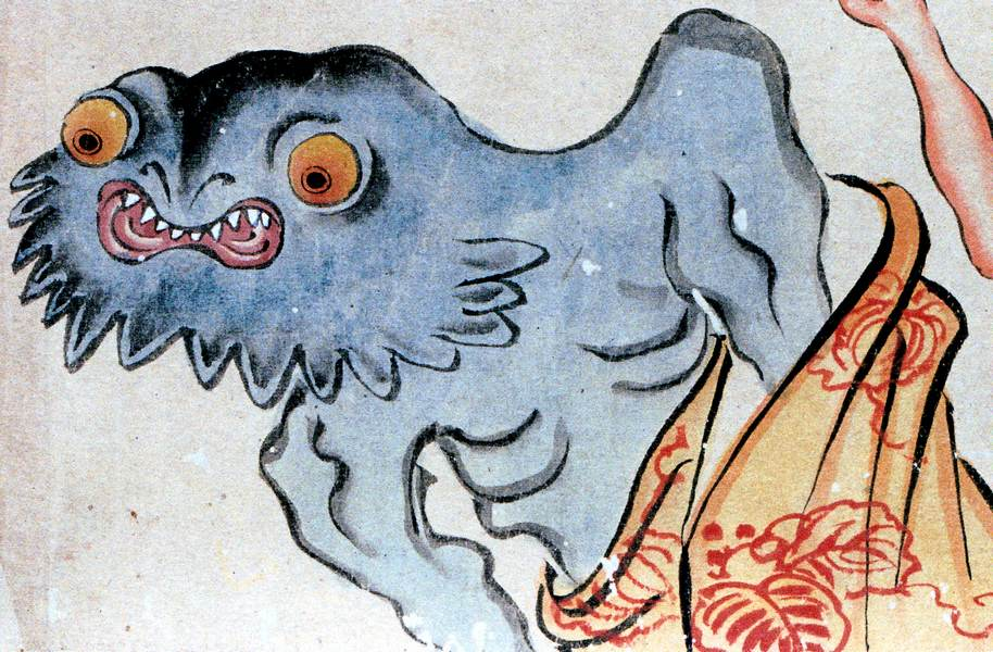 Igabō (いが坊) from the Hyakki-Yagyō-Emaki (百鬼夜行絵巻)